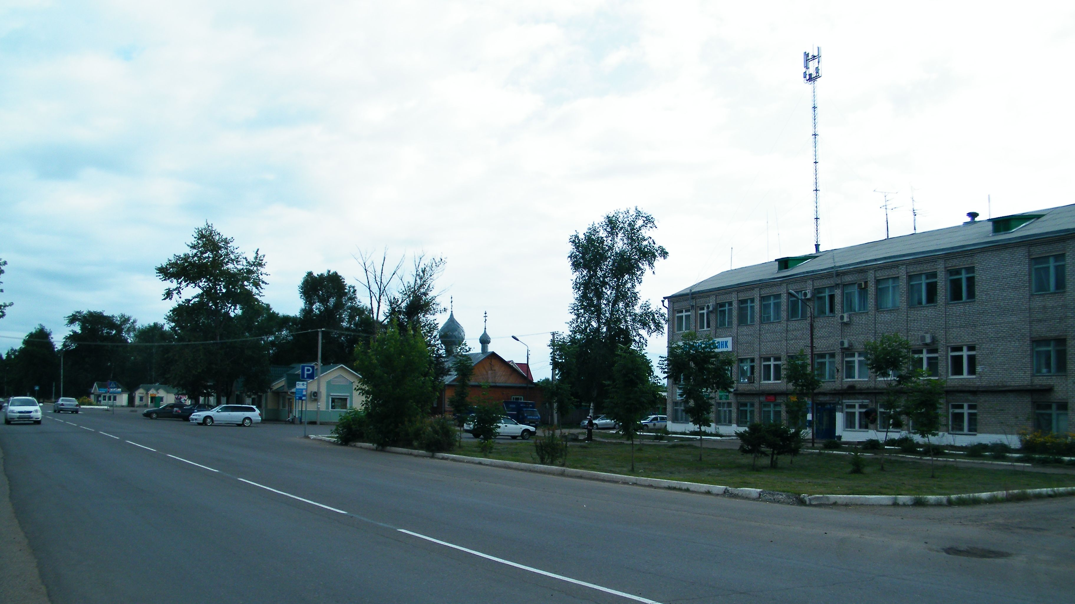 Chuguevka